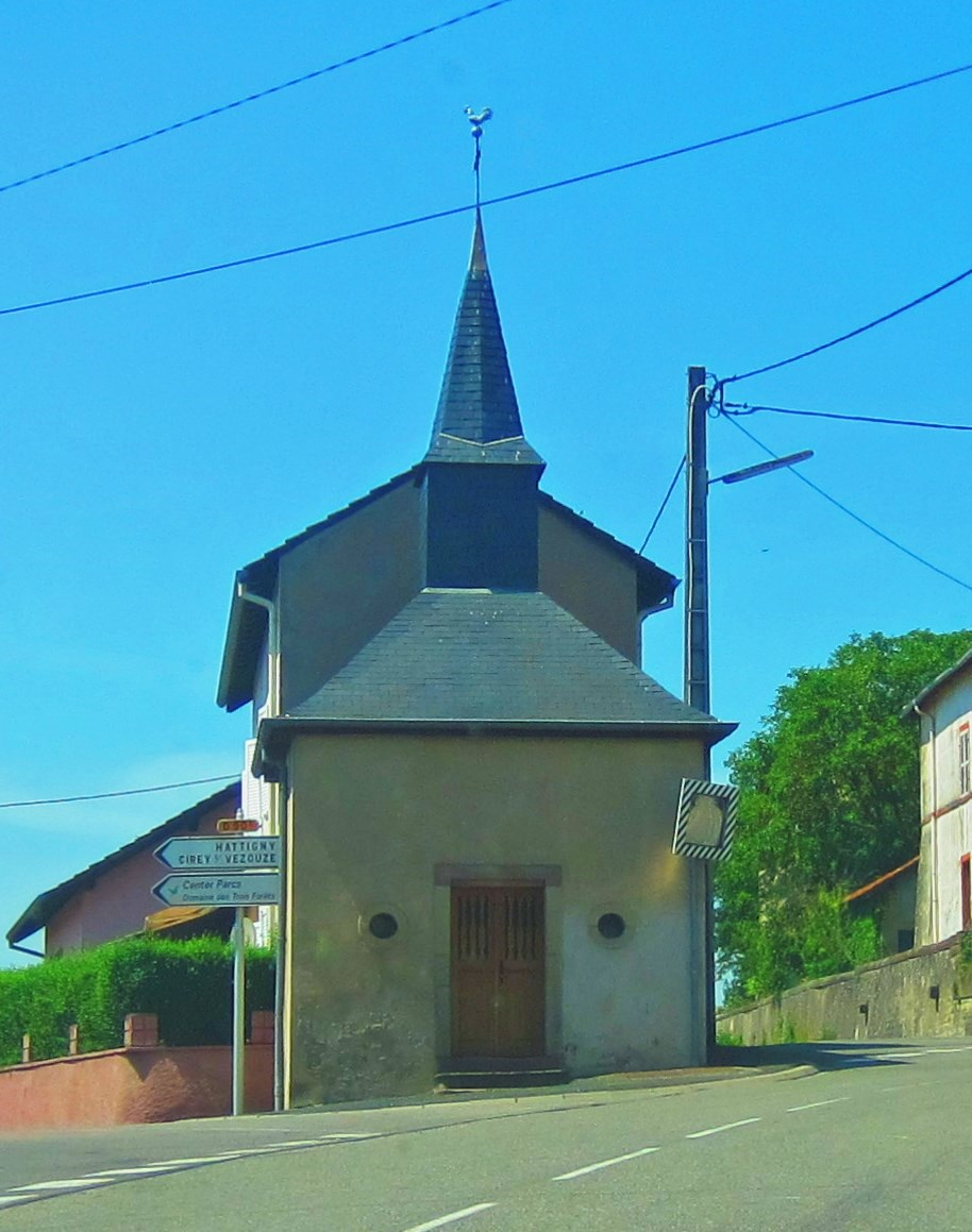 Chapelle Lorquin